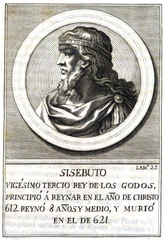 A poster of SISEBUTO, Visigoth king, n°23 in the chronological order of the book digitalized by Google since the bookshop in the University of Oxford.